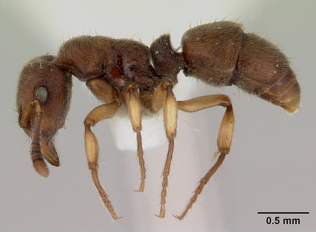 Profile view of ant Heteroponera brounii specimen casent0172107.